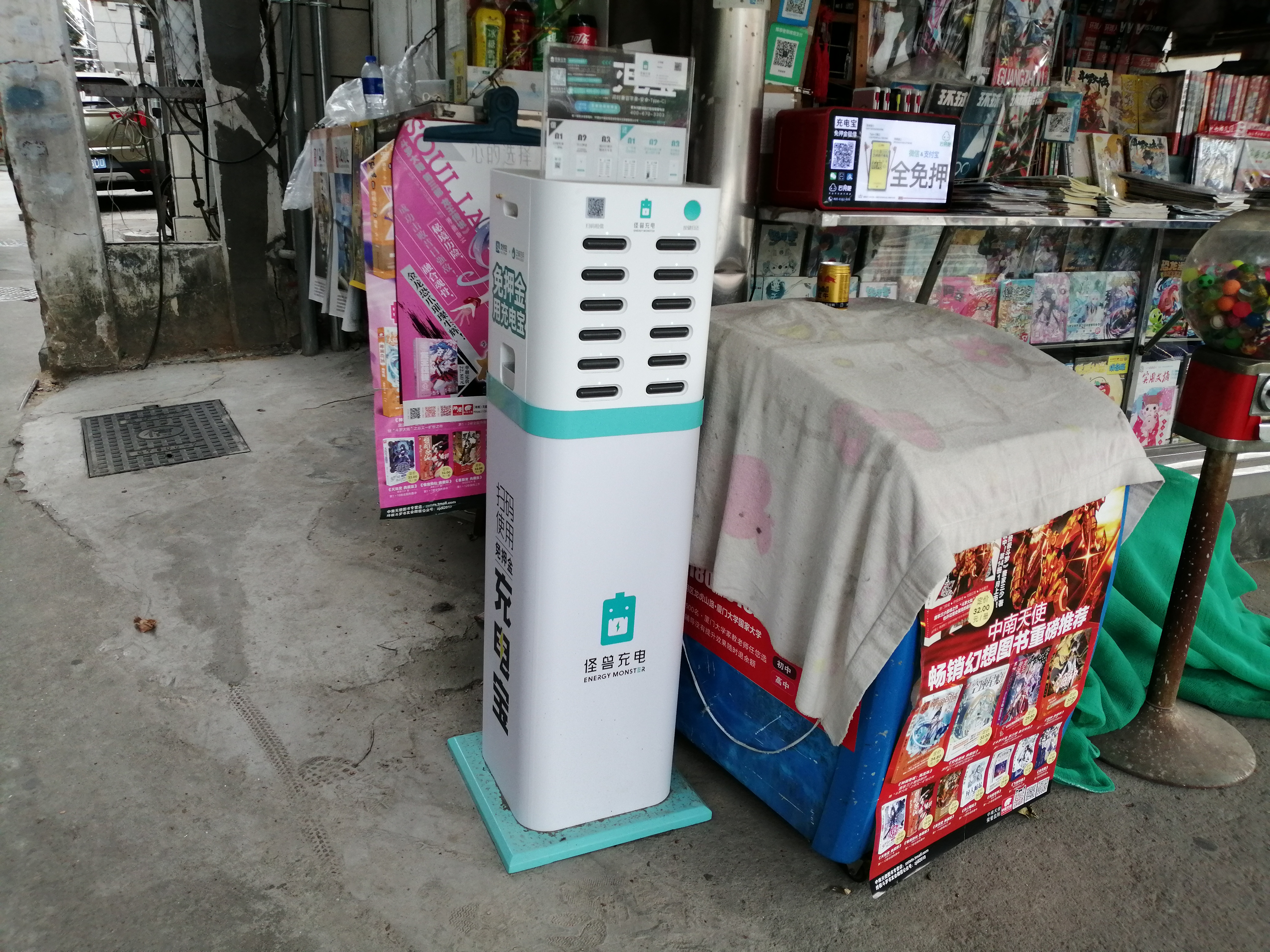 The shared Power Bank, which operated by Monster, located in Siming District, Xiamen. 中文（中国大陆）: 怪兽充电运营的共享充电宝，摄于厦门市思明区